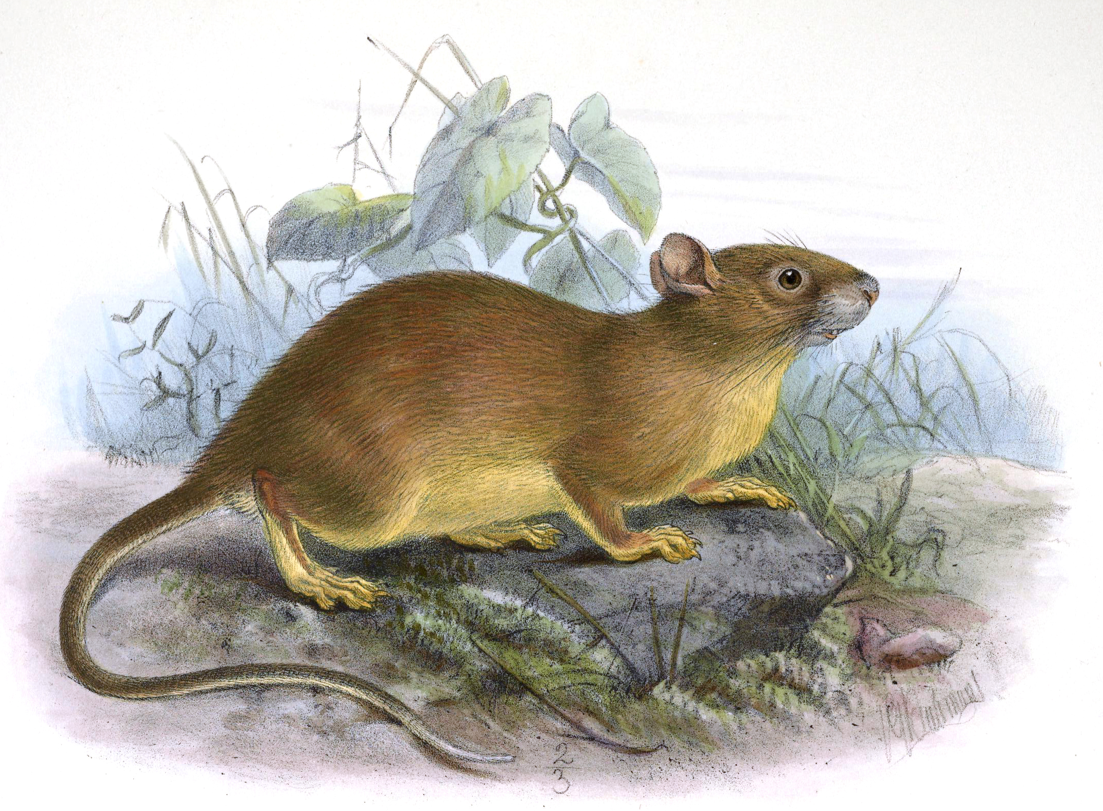 Mus bowersi = Berylmys bowersi